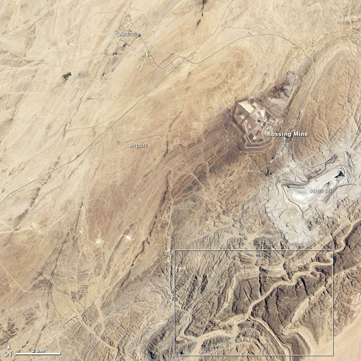 The Erongo region is home to Rössing mine, the oldest and third-largest producer of uranium in the world. Situated about 70 kilometers (40 miles) northeast of the coastal city of Swakopmund, the mine is located near the ephemeral Khan River. The Advanced Land Imager (ALI) on NASA’s Earth Observing-1 (EO-1) satellite acquired this image of the mine and surrounding landscape on March 8, 2013. Roessing’s 400-meter (1,300-foot) deep pit and a large processing facility north of it are the dominant features in the bottom image. The pit taps into layers of metasedimentary rock that contain intrusions of a type of coarse-grained igneous rock called pegmatite. Pegmatite often contains rare minerals and forms when magma slowly cools and hardens beneath the surface. The mine sustains the small satellite town (population 7,600) of Arandis, which is visible near the top of the image. Roads and rail connect Arandis to Swakopmond, and there is a small airport south of Arandis. The dried channel of the Khan River is visible near the bottom of the image. While the surrounding landscape is largely devoid of vegetation, groundwater beneath the channel sustains some shrubs, trees, and grasses. The patches of green within and around the river channel in the top image are vegetation. Some Namibians and environmental groups have raised concerns that water samples from the Khan River channel showed elevated uranium levels. Uranium carried in wastewater from the mine may be reaching groundwater and increasing uranium levels near the river. However, a study led by Michael Schubert, a scientist from the Helmholtz Center for Environmental Research, found that uranium also occurs naturally in the channel sediments. His team found no evidence that water contaminated by the mine had seeped into the groundwater.